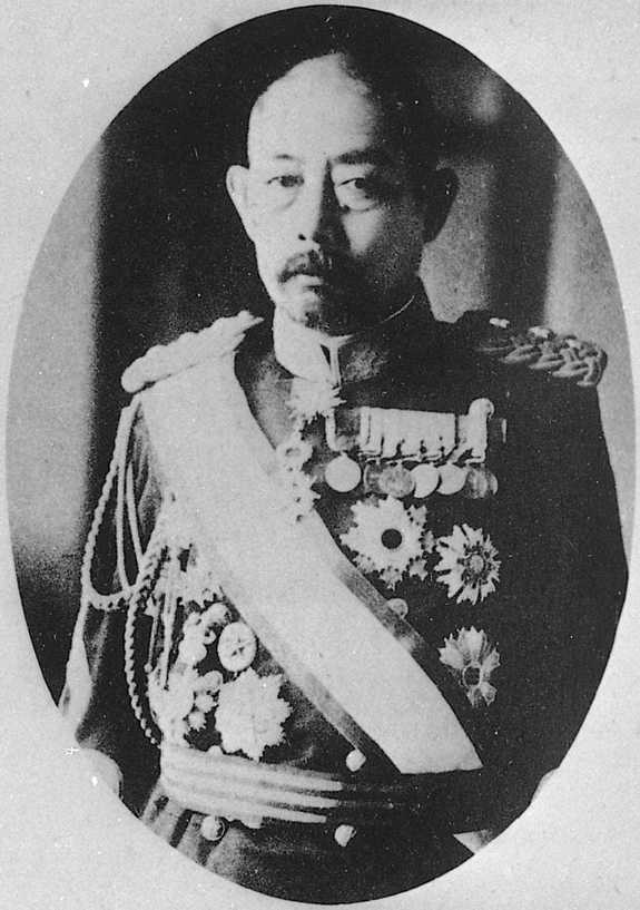 Portrait of Akashi Motojiro (明石元二郎, 1864 – 1919)